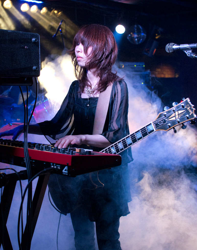 Taken at the Biltmore nightclub in Vancouver in October 2011